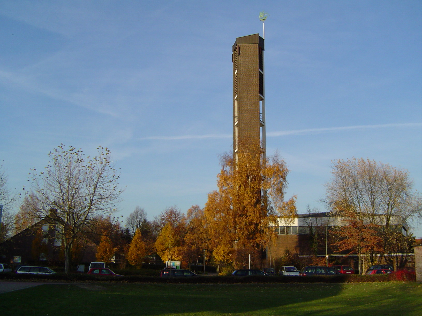 St Nicolas Church (Dorsten, Germany)